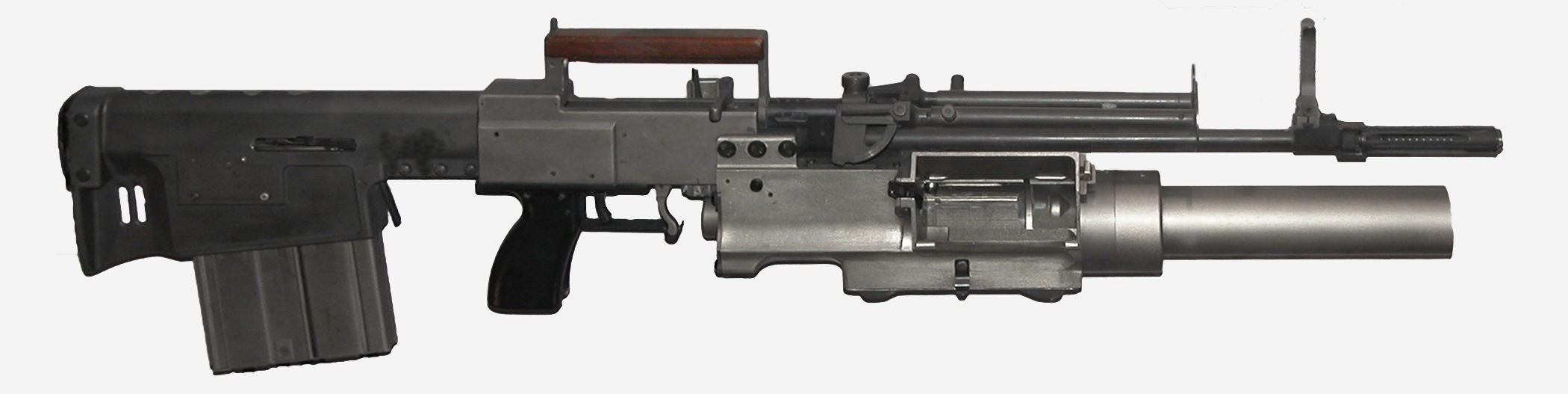 This photo was taken by myself, Blaise F Egan, at the museum of the Aberdeen Proving Ground in Aberdeen, Maryland, USA. I corrected for distortion, prespective, and exposure with PTLens then cleared the background elements with Photoshop. Finally, I cloned out the three mounts that I could see that mounted the rifle to the board at Aberdeen. Hopefully, you'll agree it looks better now. --Nukes4Tots (talk) 17:59, 20 April 2008 (UTC)